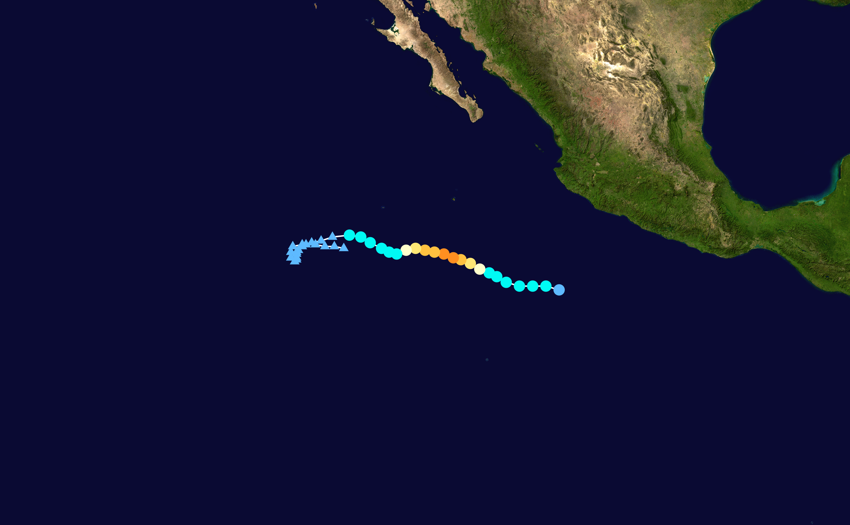 Track map of Hurricane Aletta of the 2018 Pacific hurricane season. The points show the location of the storm at 6-hour intervals. The colour represents the storm's maximum sustained wind speeds as classified in the Saffir–Simpson scale (see below), and the shape of the data points represent the nature of the storm, according to the legend below. Saffir–Simpson scale Tropical depression≤38 mph≤62 km/h Category 3111–129 mph178–208 km/h Tropical storm39–73 mph63–118 km/h Category 4130–156 mph209–251 km/h Category 174–95 mph119–153 km/h Category 5≥157 mph≥252 km/h Category 296–110 mph154–177 km/h Unknown Storm type Tropical cyclone Subtropical cyclone Extratropical cyclone / Remnant low / Tropical disturbance / Monsoon depression